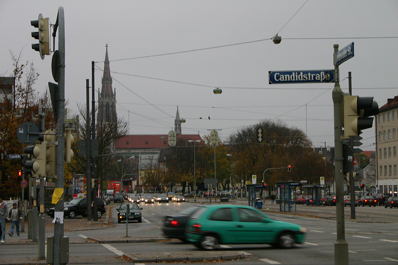 Munich/Giesing, view north from Grünwalderstrasse towards Heilig-Kreuz-Kirche, picture from German Wikipedia